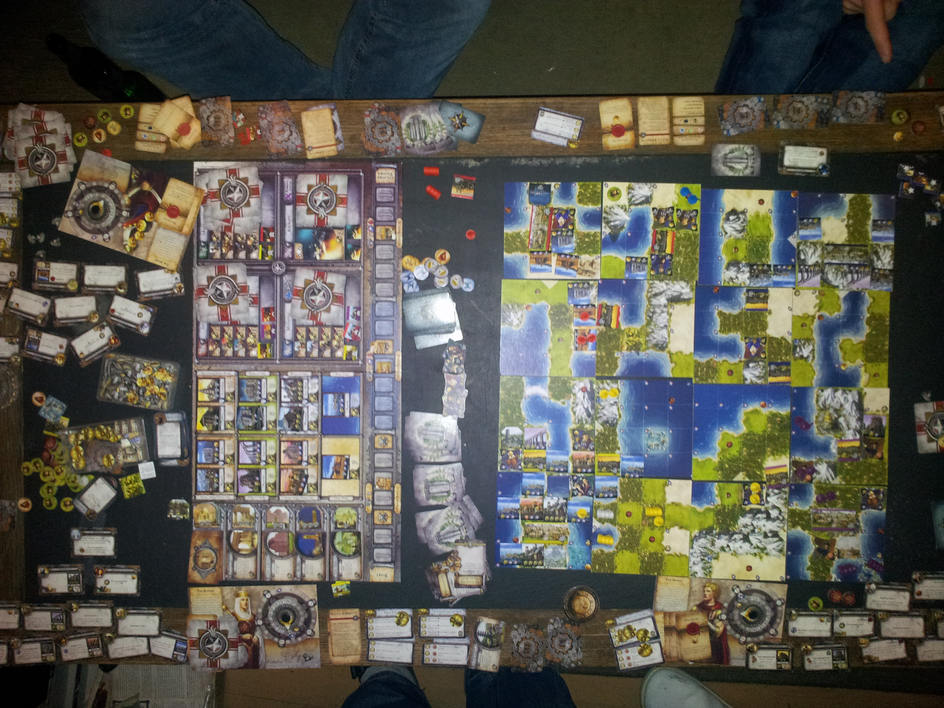 Table setup in a 4 Player lategame Civilization: The Board Game including the Fame and Fortune" expansion.